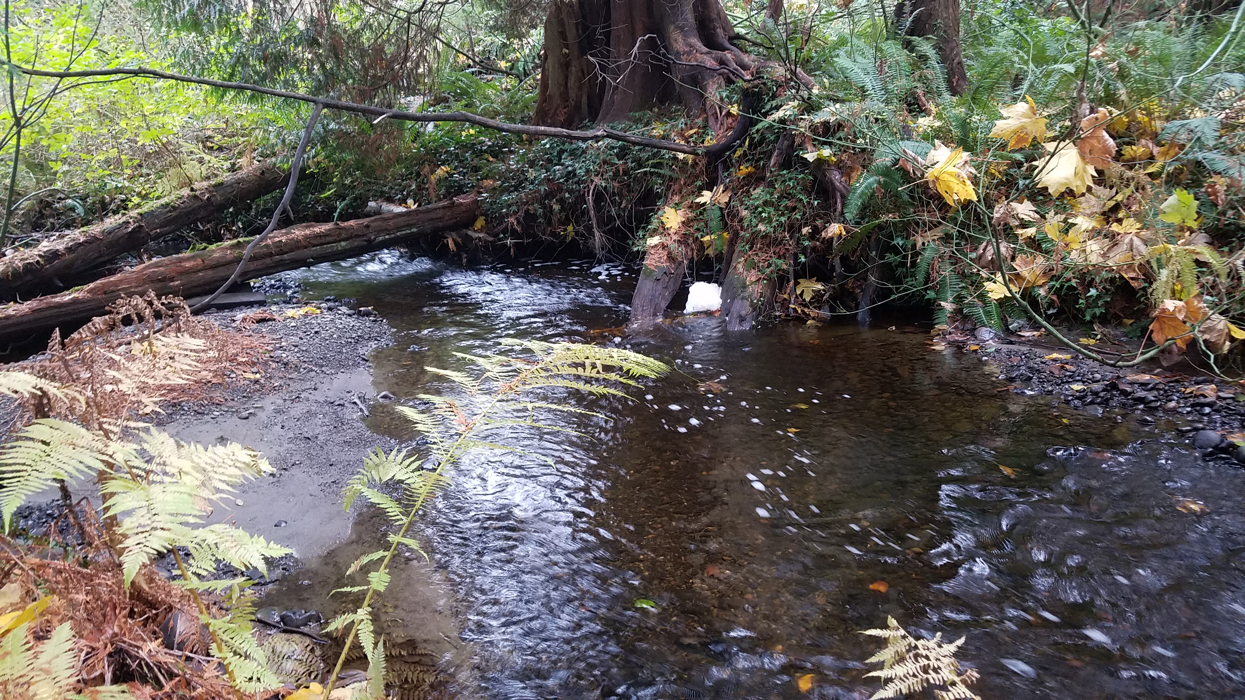 Kelsey Creek in Bellevue's Crossroads neighborhood in November of 2017.